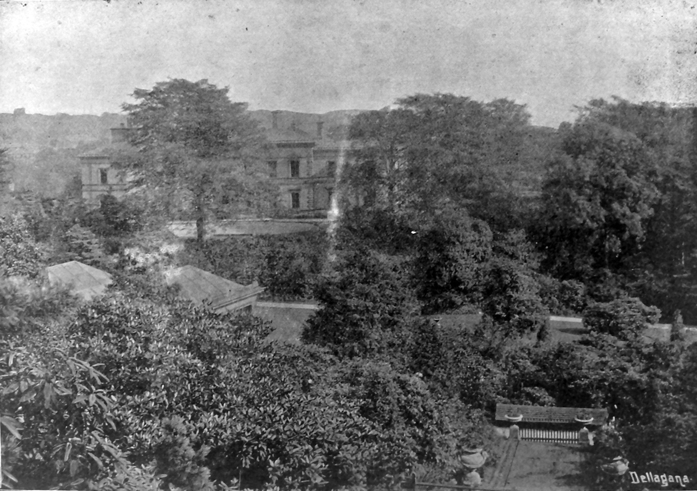 Philips Park around 1902, taken from the top of the grass staircase.